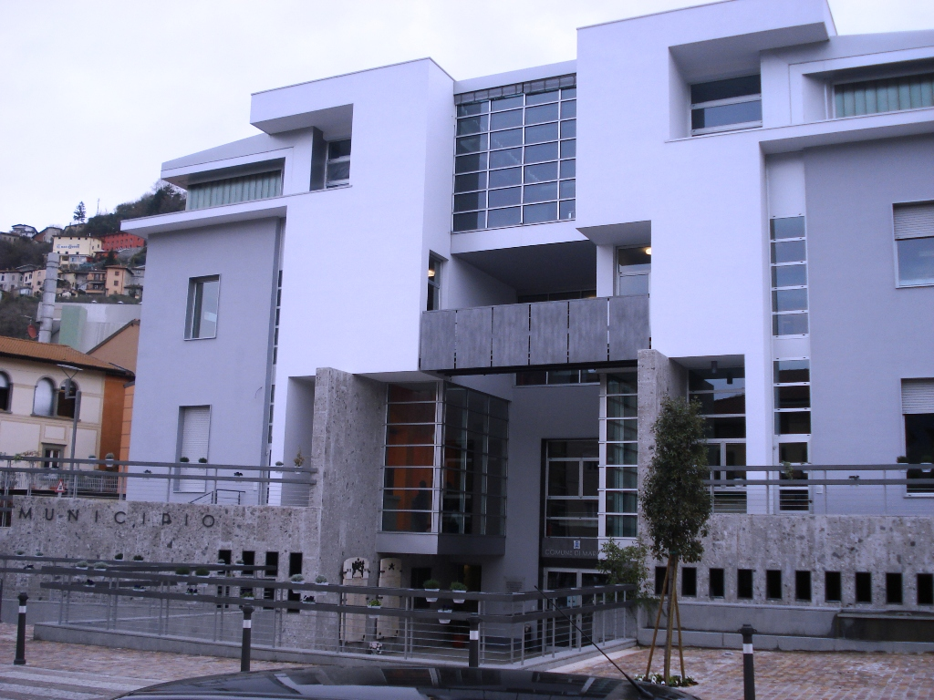 Town hall. Marone, Val Camonica